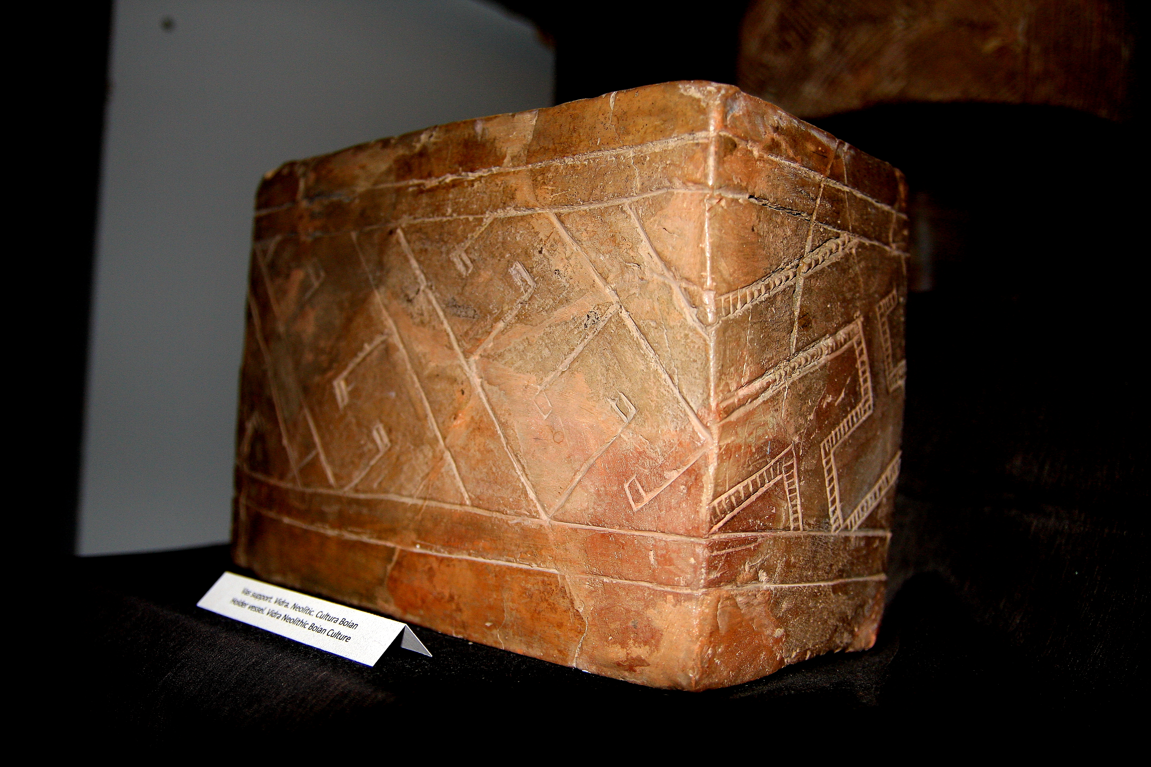 Neolithic Boian Culture pottery exposed in Bucharest History Museum